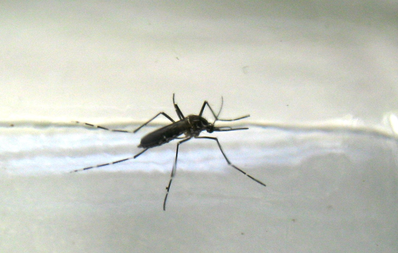 Vector for Dengue Virus.